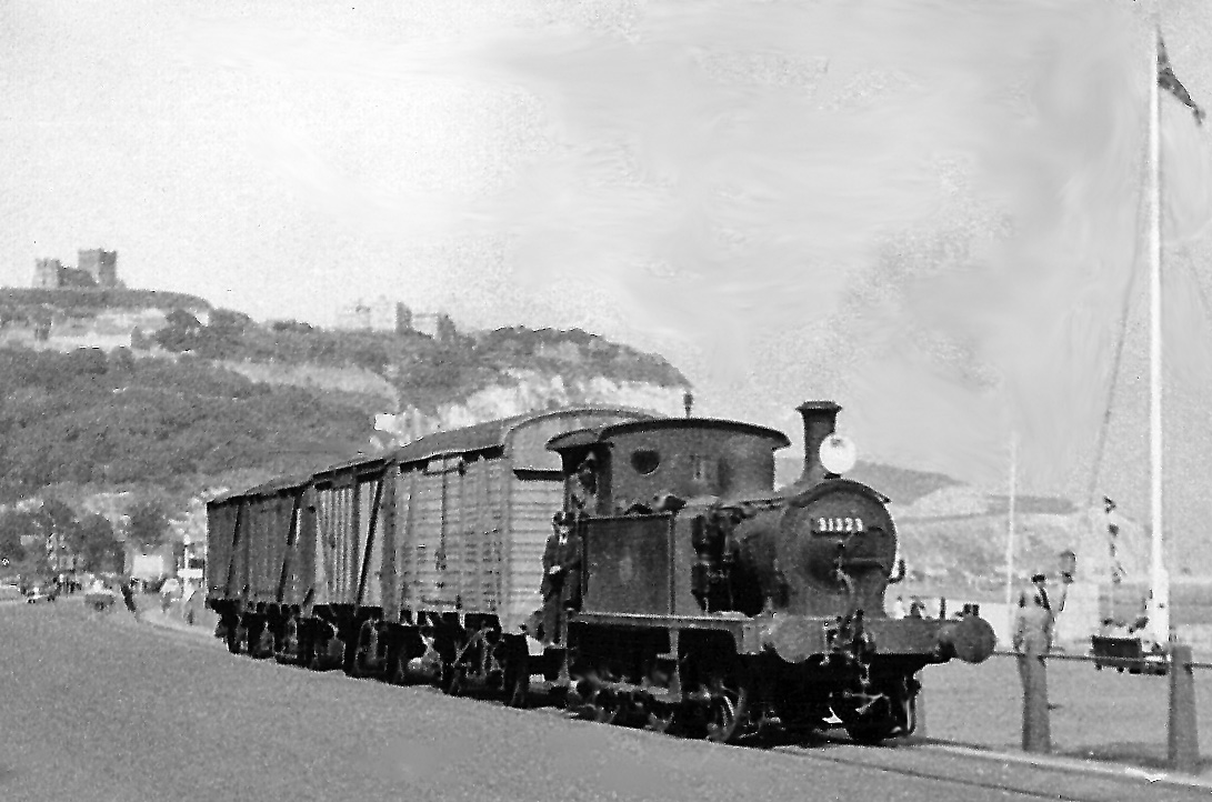 Goods train from Eastern Dock running along Marine Parade at Dover. View NE, to Dover Castle on the left, the sea to the right. The locomotive is ex-SE&CR Wainwright P class 0-6-0T No. 31323 (built 7/1910, withdrawn 3/60). Note that the train has no brakevan and seems to being led by railwayman on foot.